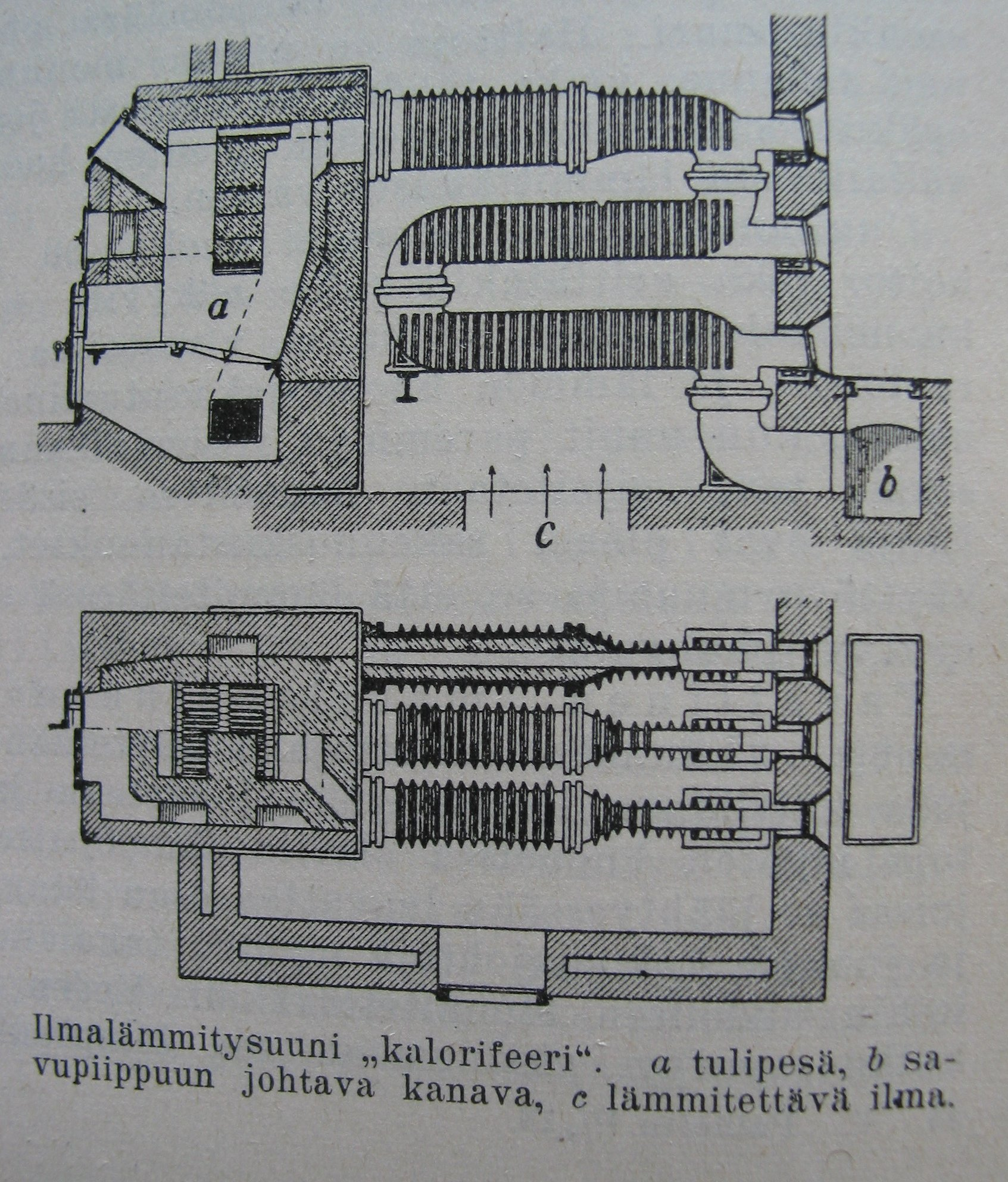 Calorifier